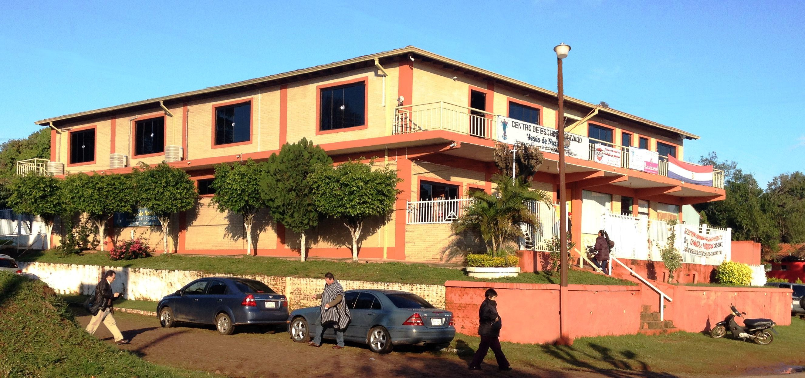 UNIVERSIDADE DE MEDICINA DE SAN IGNACIO